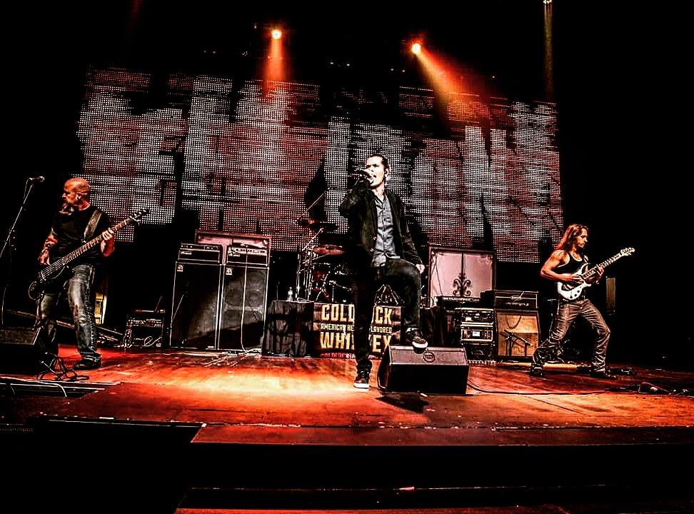 Seek Irony in 2016. From left to right: Adam Donovan, Kfir Gov, Rom Gov, and Alex Campbell